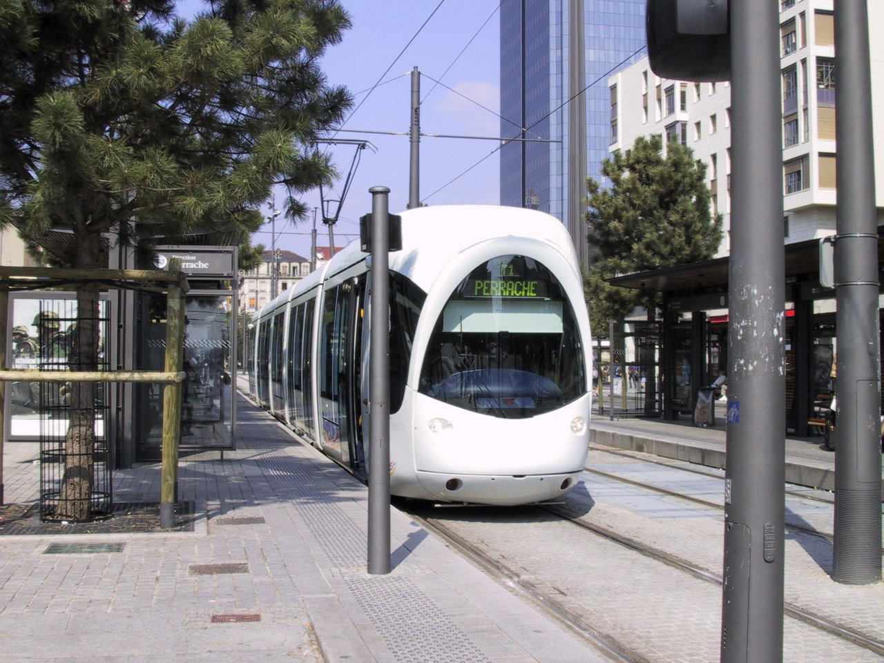 Lyon tram in Part-Dieu station. Destination "Perrache".